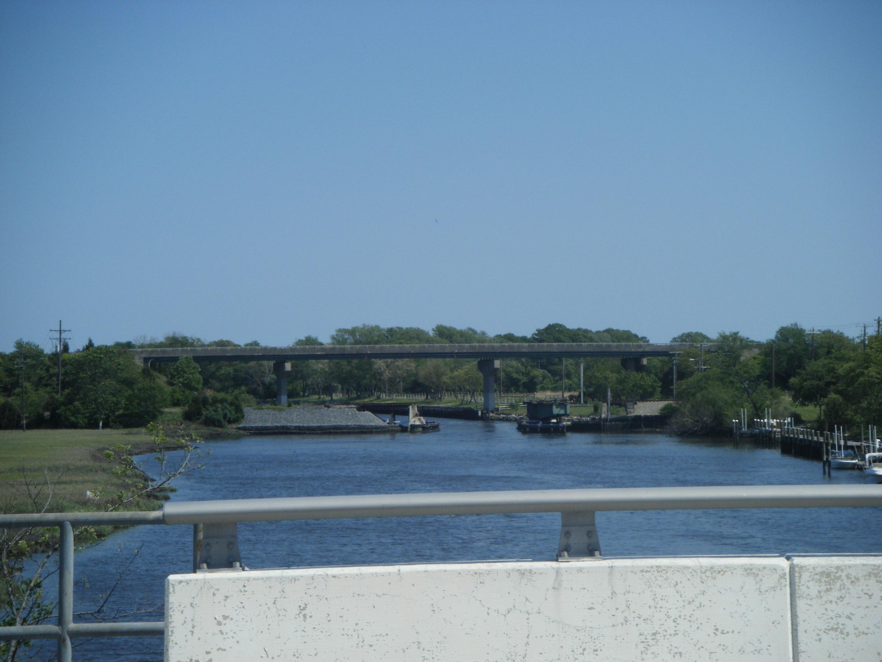 U.S. Route 9 bridge over Lewes and Rehoboth Canal in Lewes, Delaware viewed from U.S. Route 9 Business (Savannah Road) drawbridge.